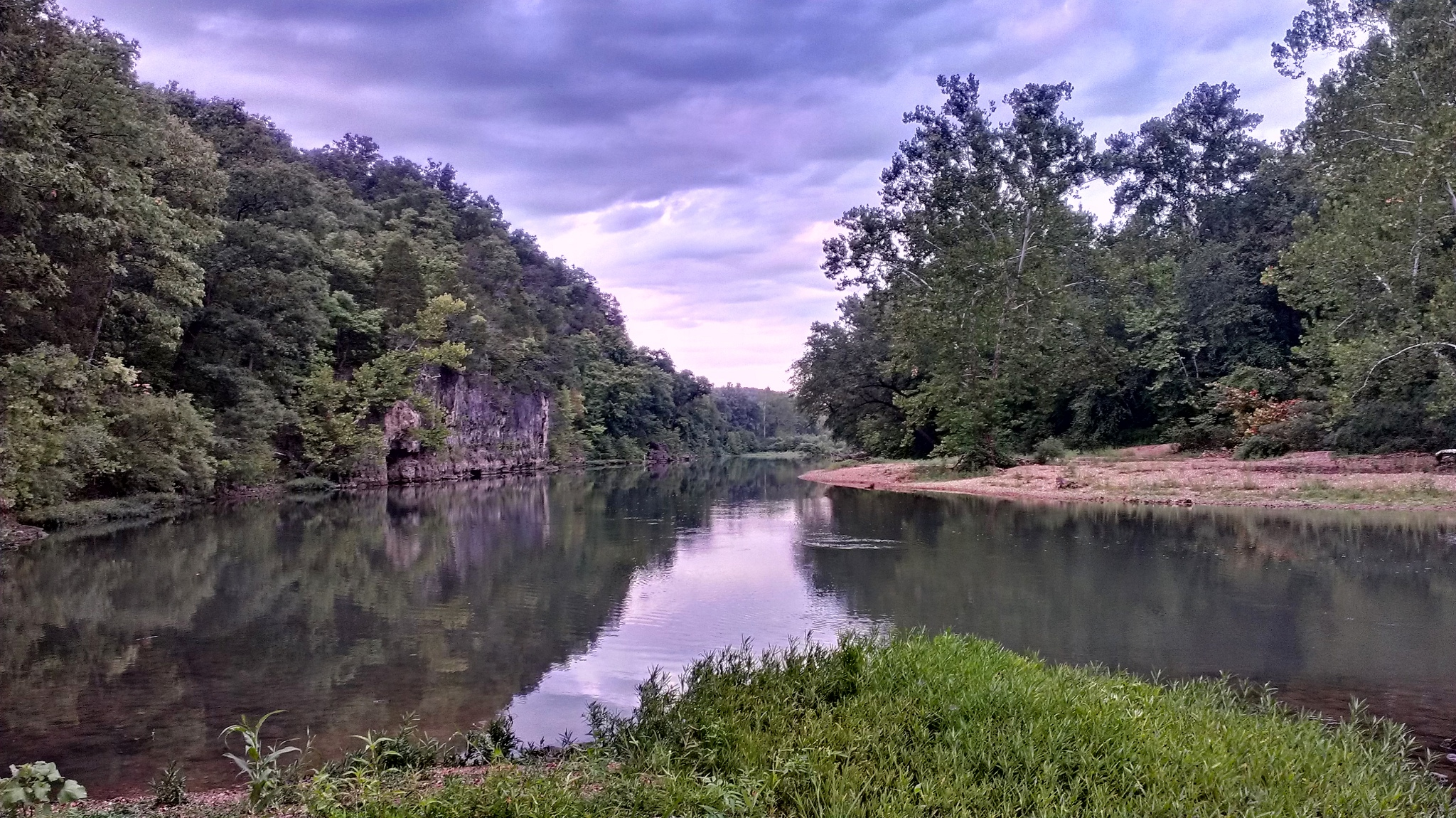 The Meramec River running past Onondaga Cave State Park in Missouri.